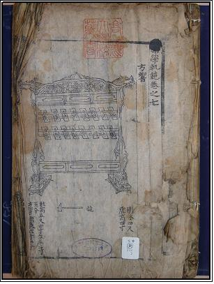 Page depicting a banghyang (Korean metallophone), from the Akhak Gwebeom, a nine-volume treatise on Korean music written in Korea in the 15th century, during the Joseon Dynasty.